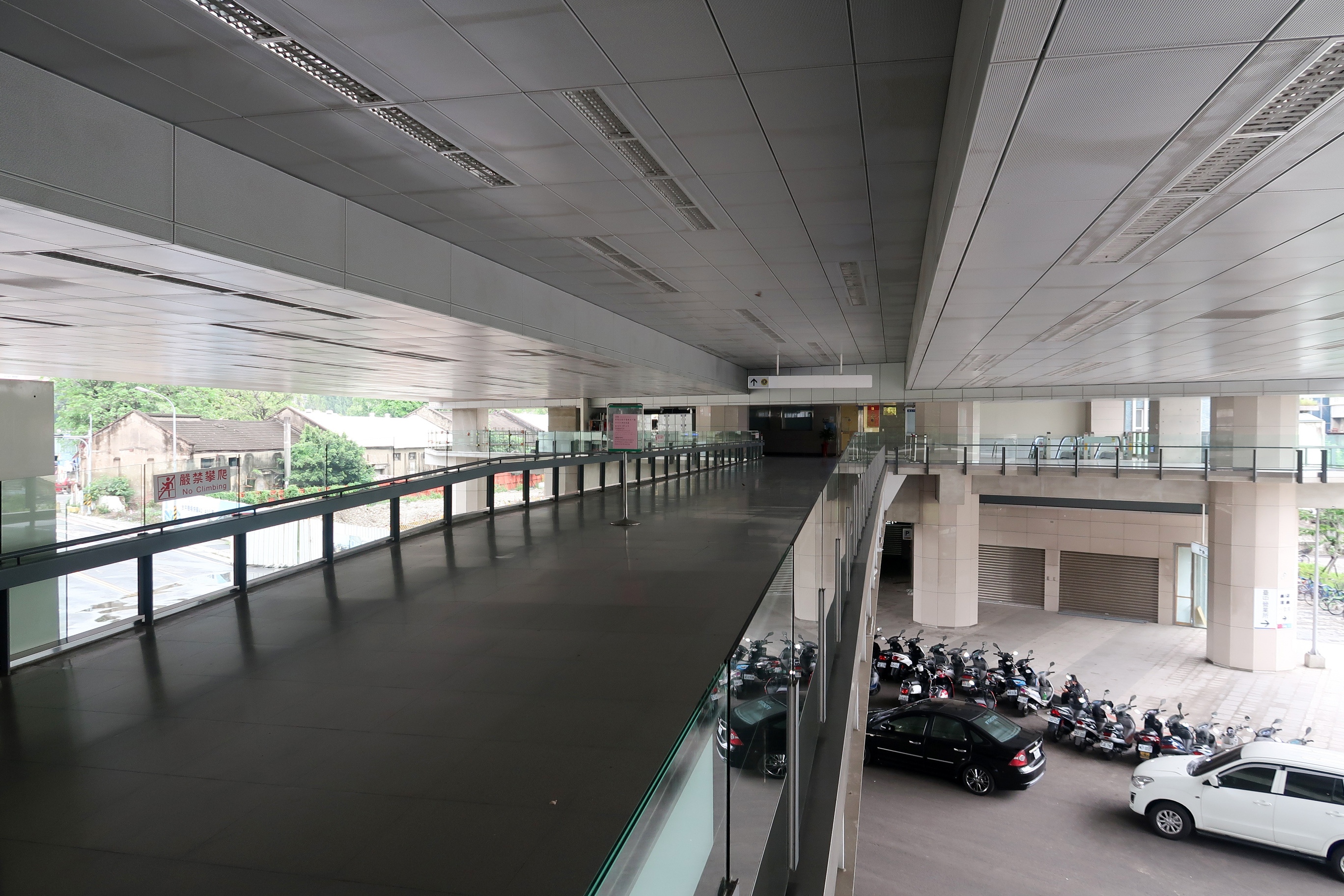 Taichung Station Level 2 Pedestrian Bridge